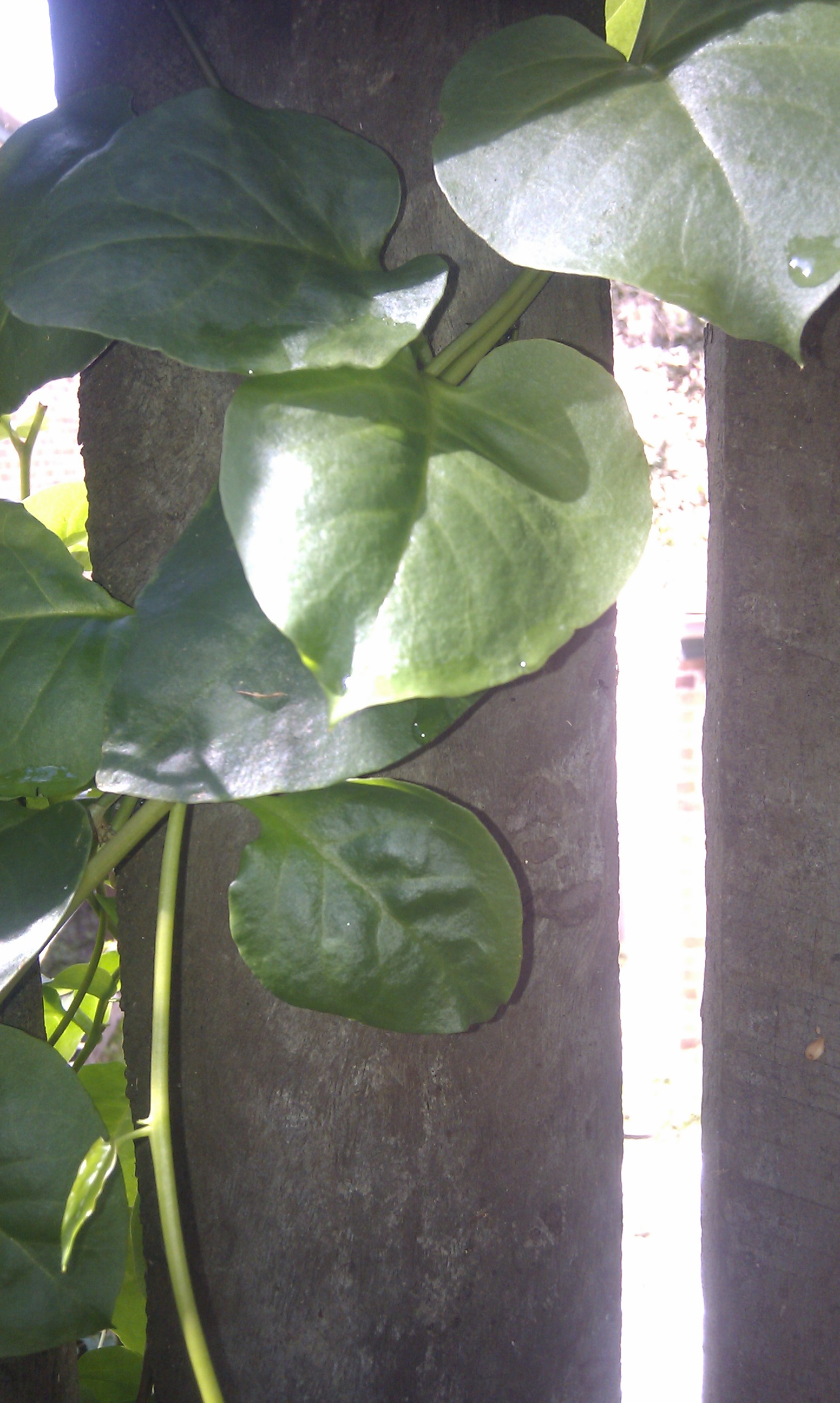 Leaves are heart shaped and glossy.